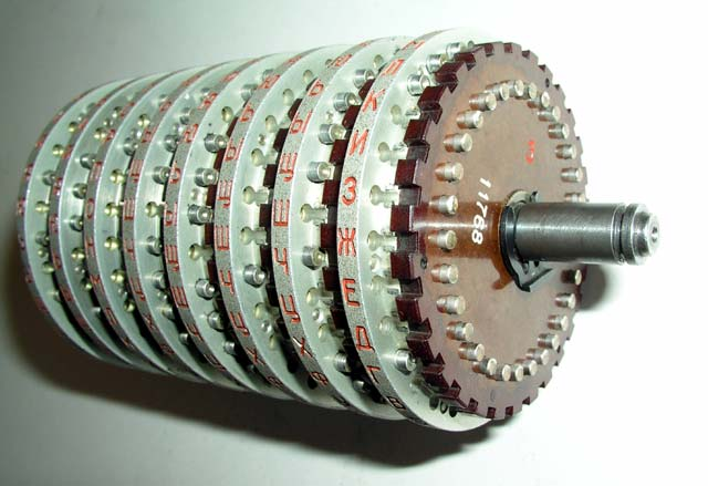 Closeup of rotor stack removed from a FIALKA cipher machine. Source: [1]. This image is copyright Professor Thomas B. Perera. The author agreed to license the photograph under the terms of the GFDL after an email exchange with User:Matt Crypto. More images of FIALKA, as well as other cipher machines, are available at Perera's online crypto museum: [2]. (Note that these images are not necessarily available under the GFDL license).